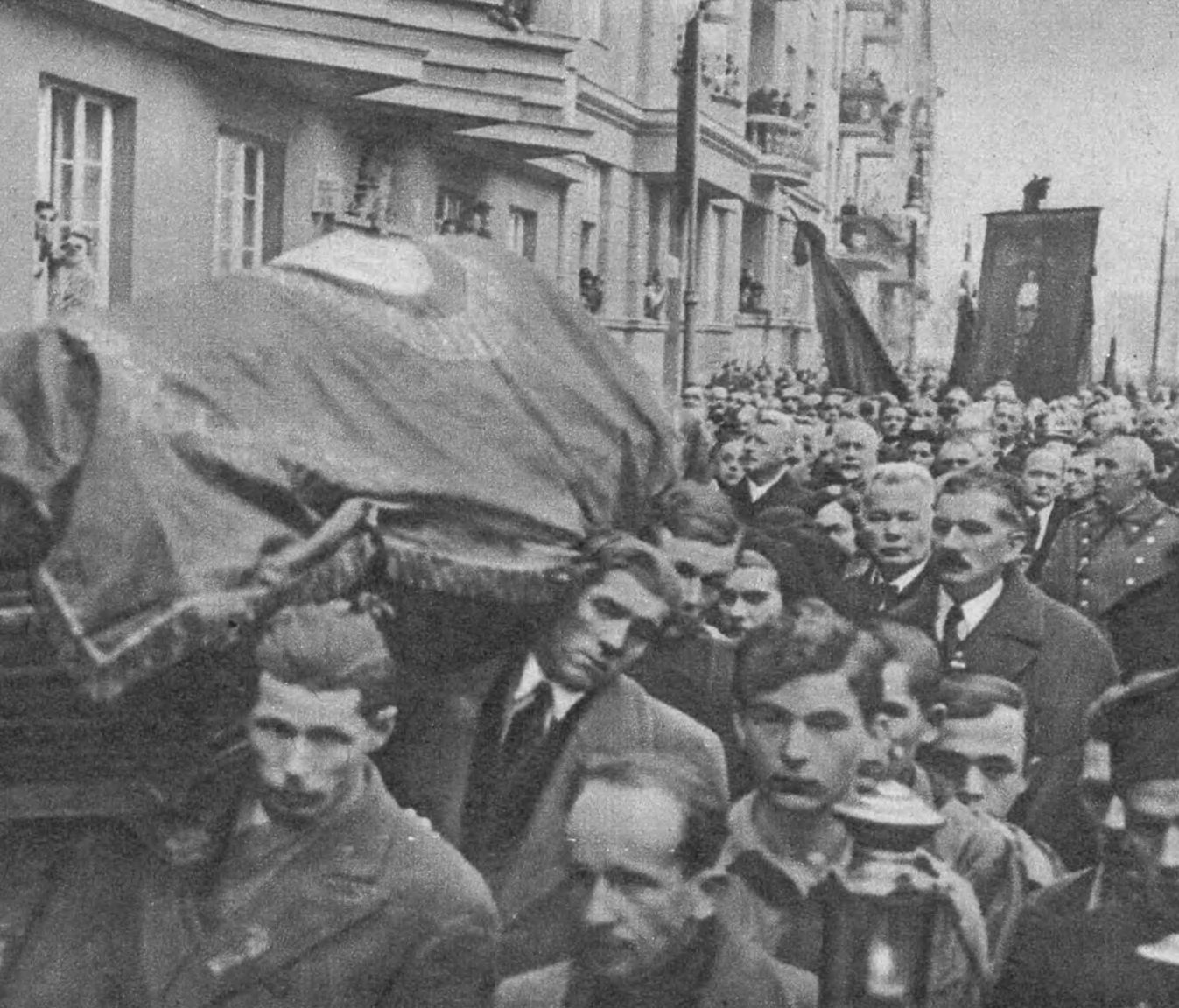 Funeral of Ignacy Daszyński - Polish socialist political leader.